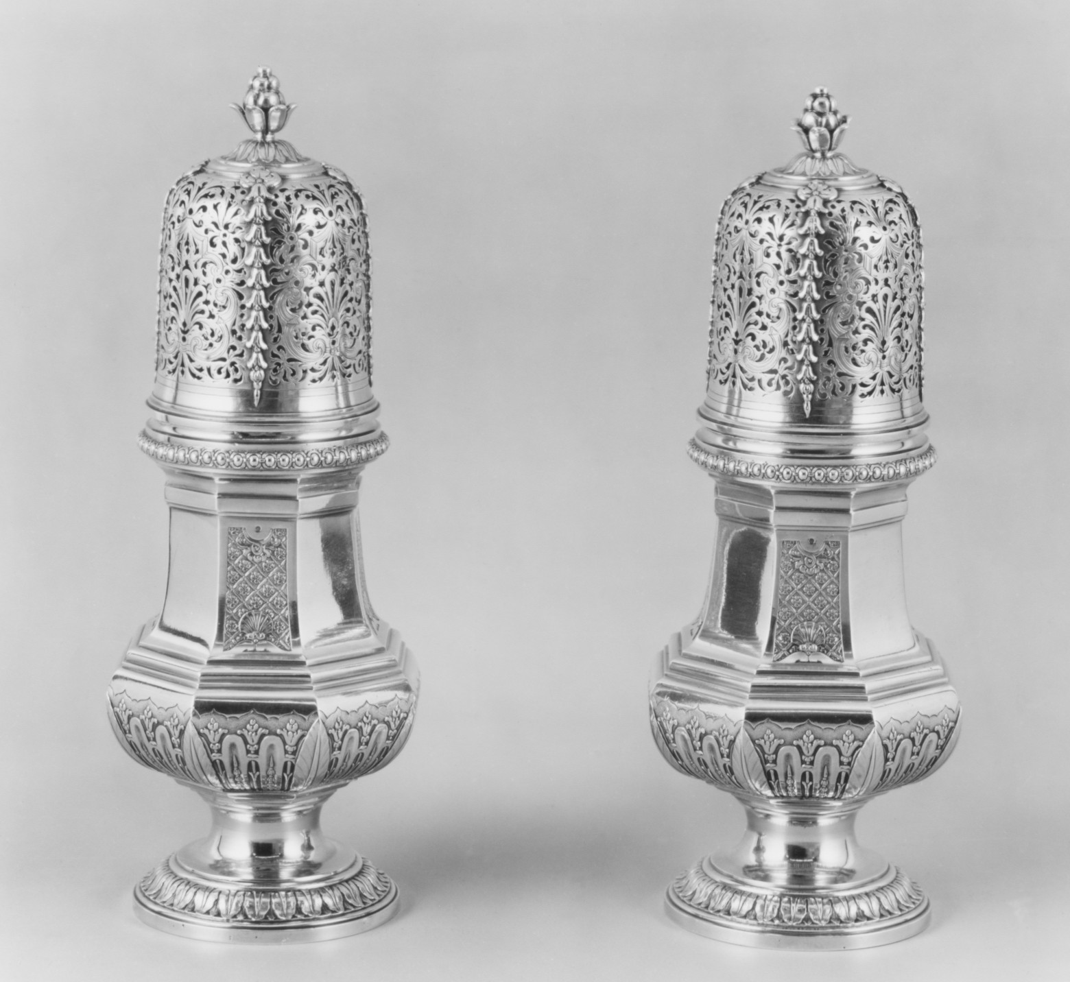 French, Paris; Sugar caster; Metalwork-Silver